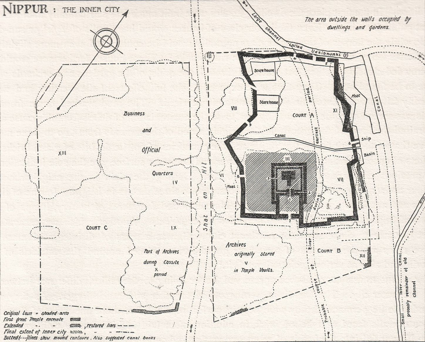 Nippur - The Inner City; (orig. addendum: Diagram of the topographical development of Nippur, showing the original site and the areas successively added to it.)